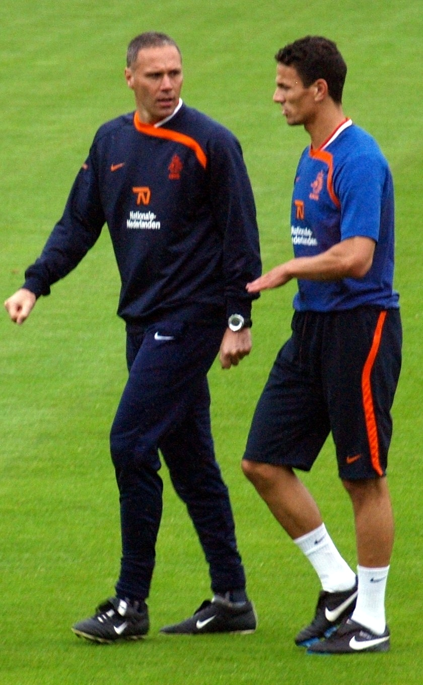 Marco van Basten and Khalid Boulahrouz